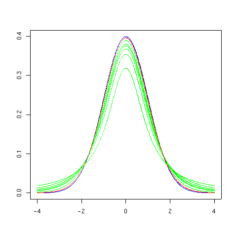 plot of t-distribution, 30 df